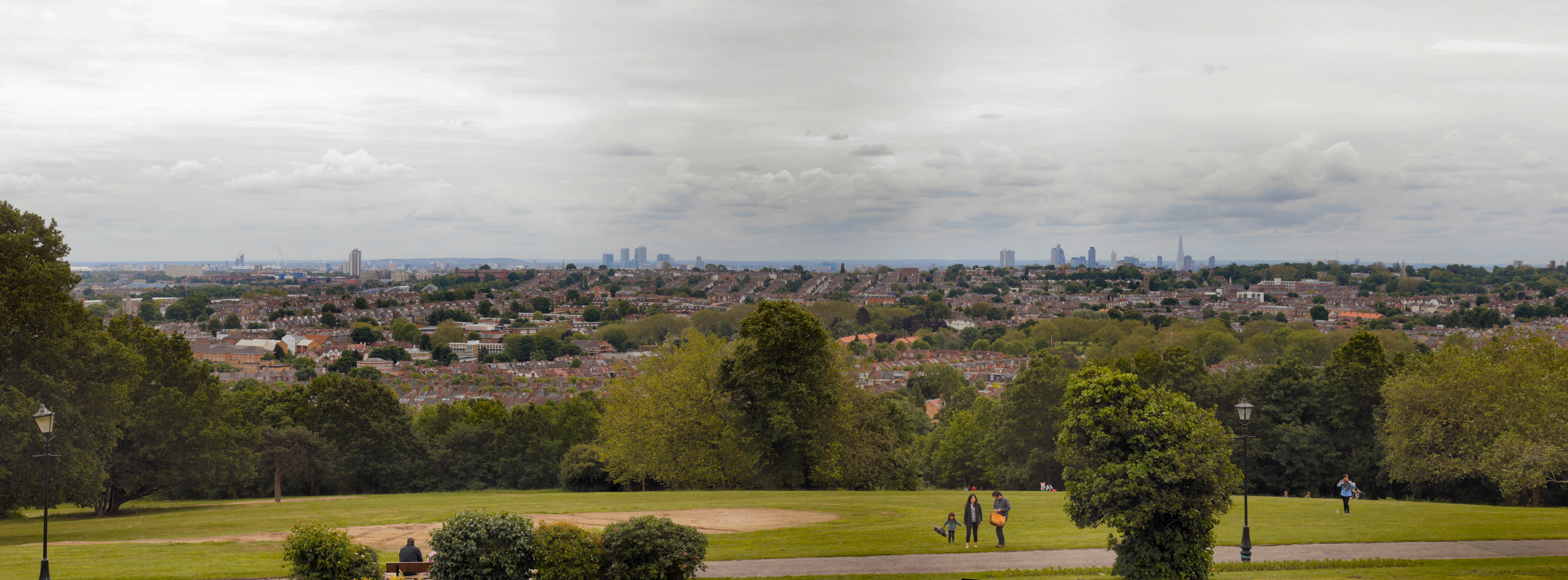 Panorama seen from Alexandra Palace